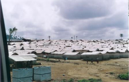 Kakata, Liberia in 2005, the home of thousands of internally displaced people, Liberia